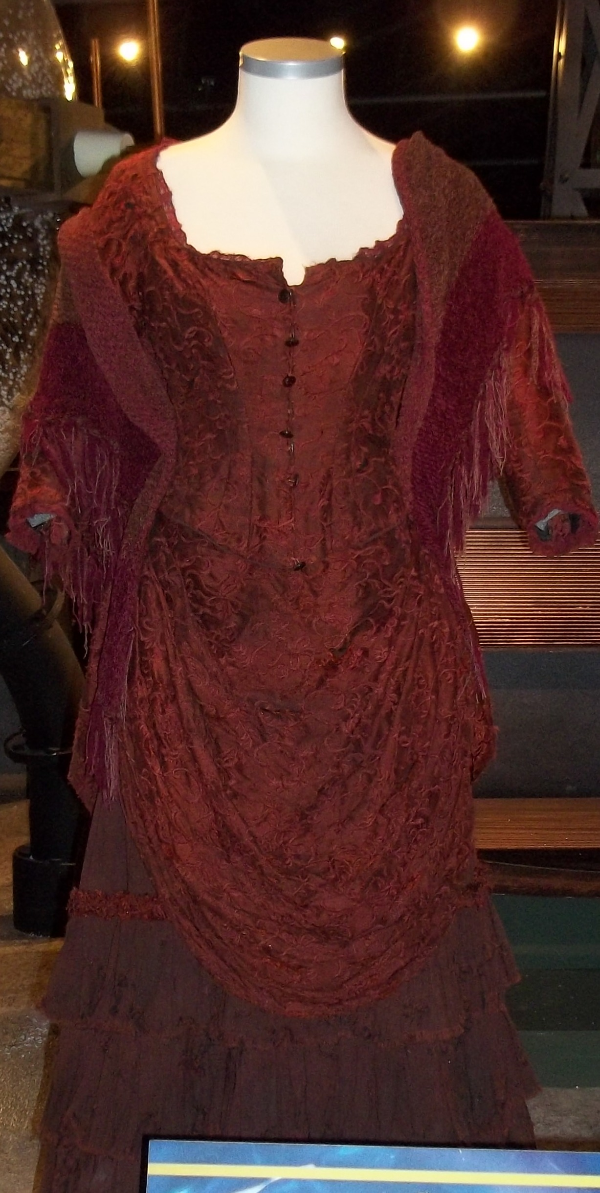 Clara from The Snowmen Doctor Who Experience